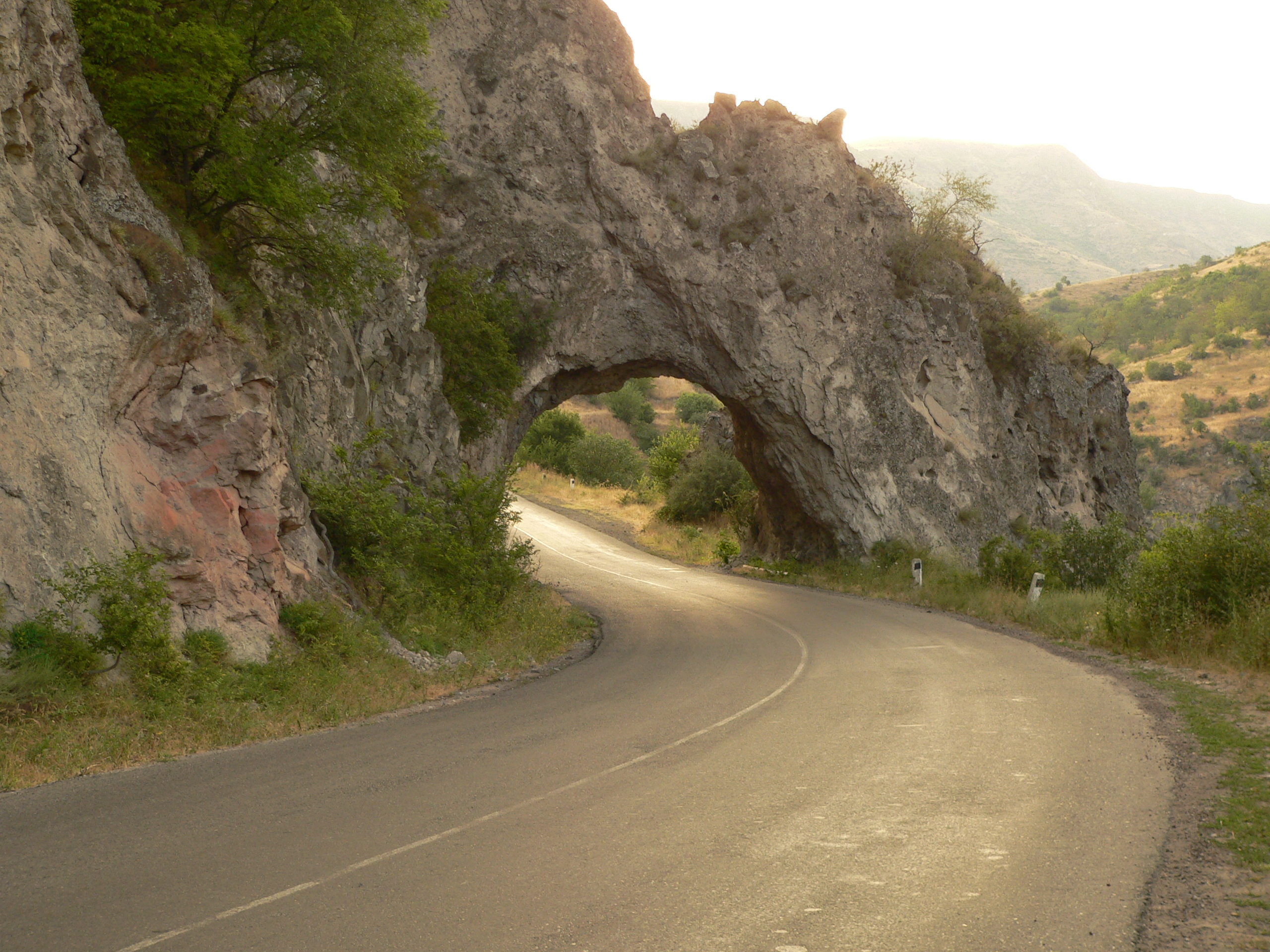 Kapan - Goris road